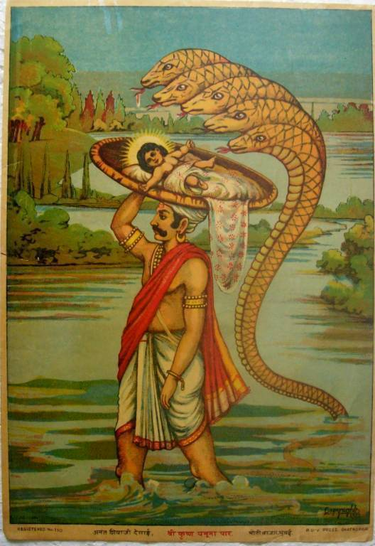 Vintage Print Vasudev with Child Krishna oleograph/litho Ravi Varma Press Size approx. 13.5x9.8 conditions shown in images, minor ignorable faults nice4 for framing and collection.